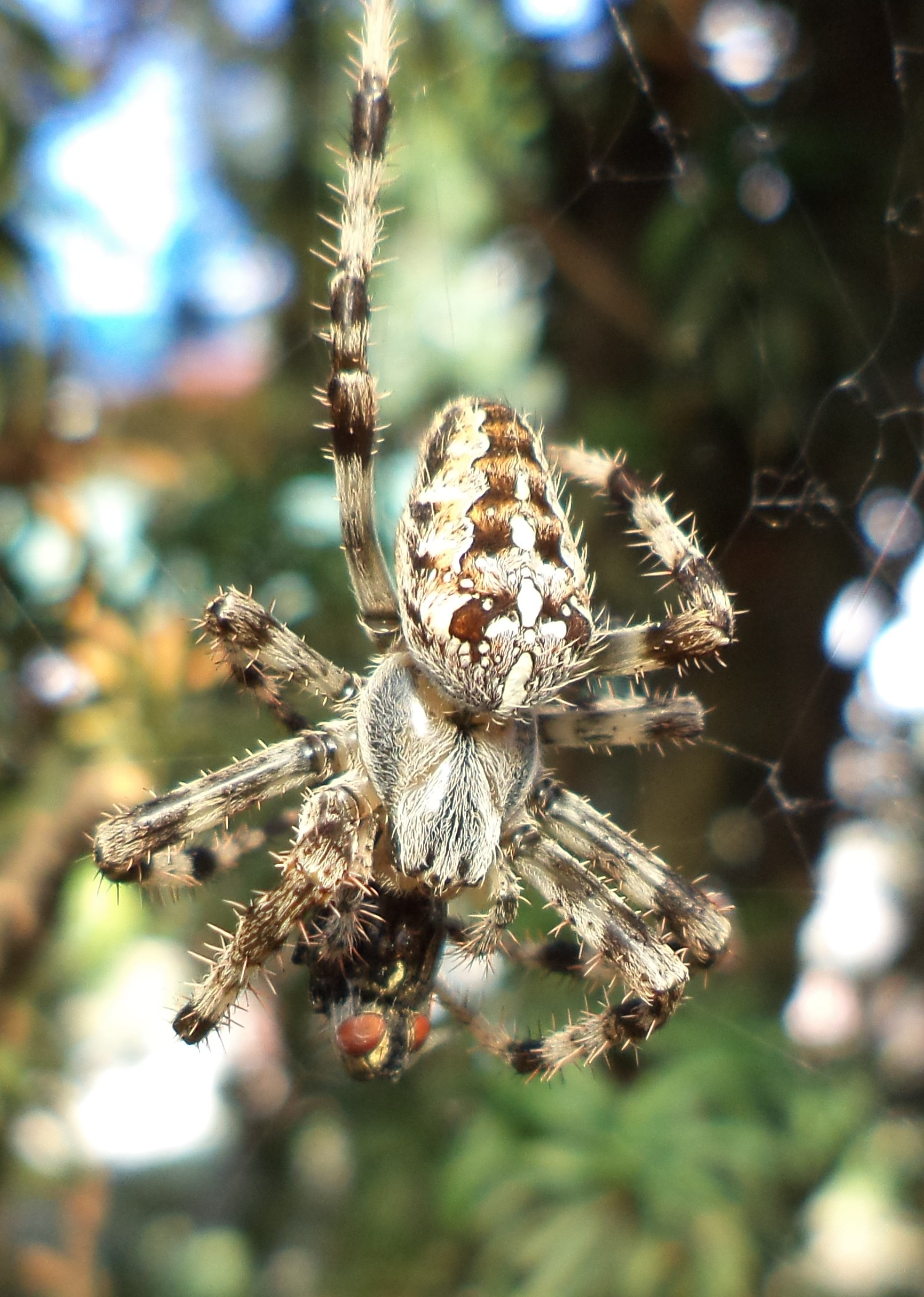 An European Garden Spider after catching its victim in a garden in Budapest, Hungary.